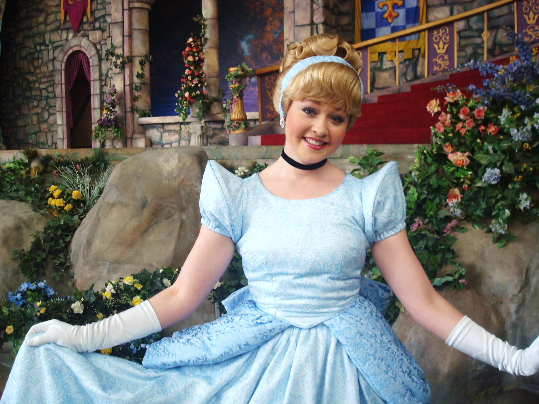 Actress portraying Cinderella poses in a character meeting set, at Disneyland.